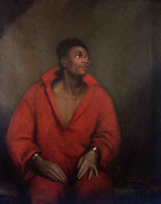 Thought to be a copy of John Simpson's painting The Captive Slave[1]